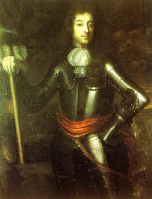 Murrough O'Brien, 1st Earl of Inchiquin (The picture was previously used erroneously in the article of his ancestor, Murrough O'Brien, 1st Earl of Thomond.)